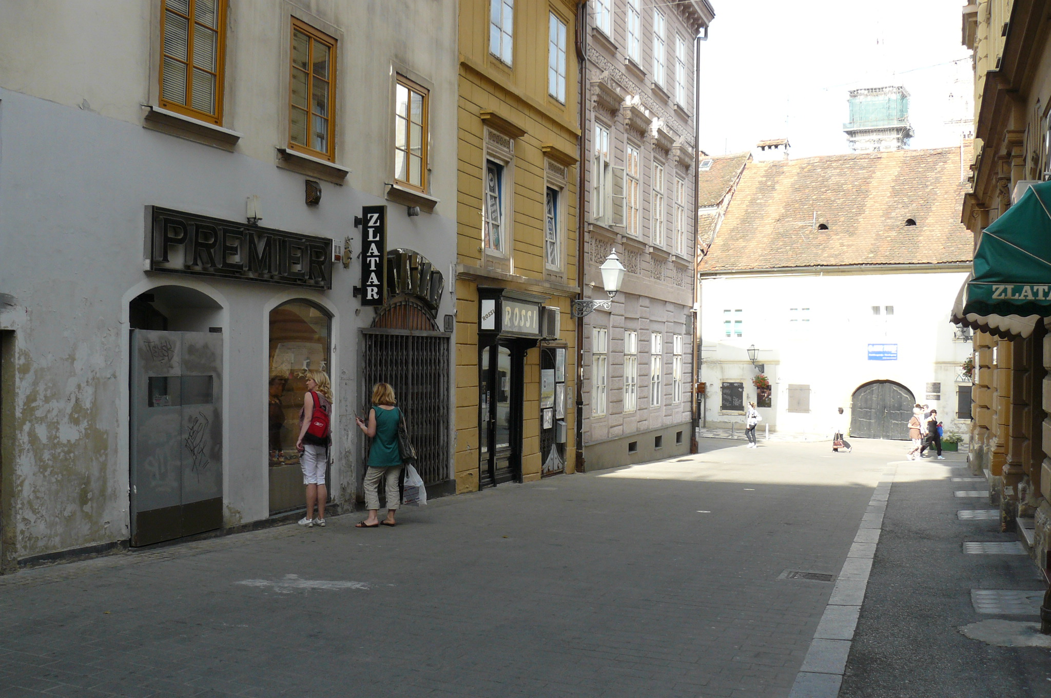 Krvavi Most Street, Zagreb.